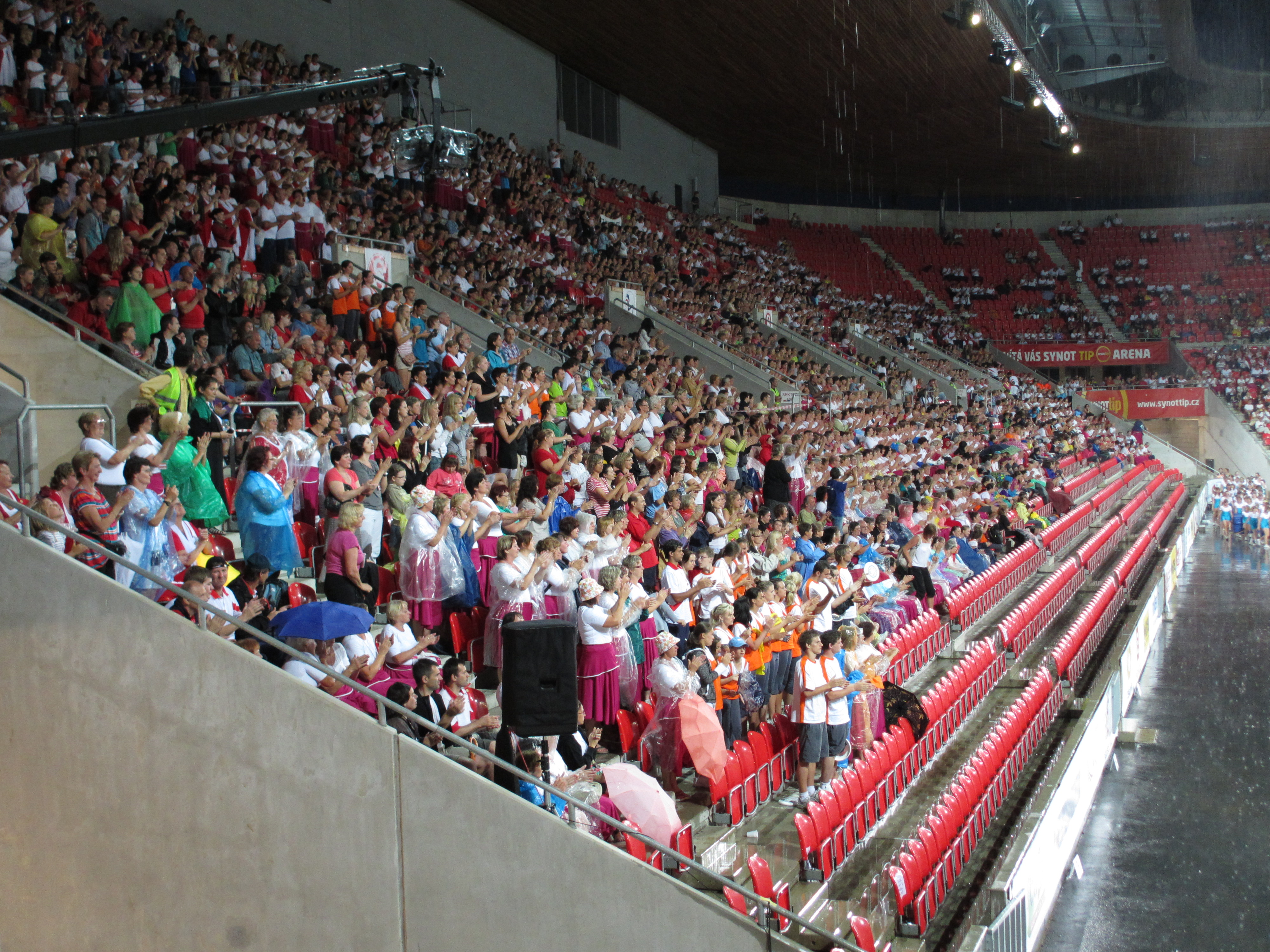 Gathering of Czech sport club Sokol called "XV. sokolský slet", Stadion Eden (called in 2012 Synot Tip Arena), Prague, Czech Republic